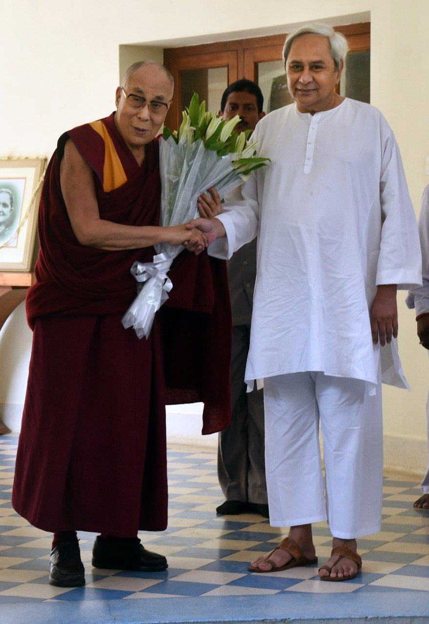 Honoured to receive His Holiness @DalaiLama at my residence today. Discussed many issues of contemporary importance and sought his blessings and guidance for working towards our state’s development and welfare of the people